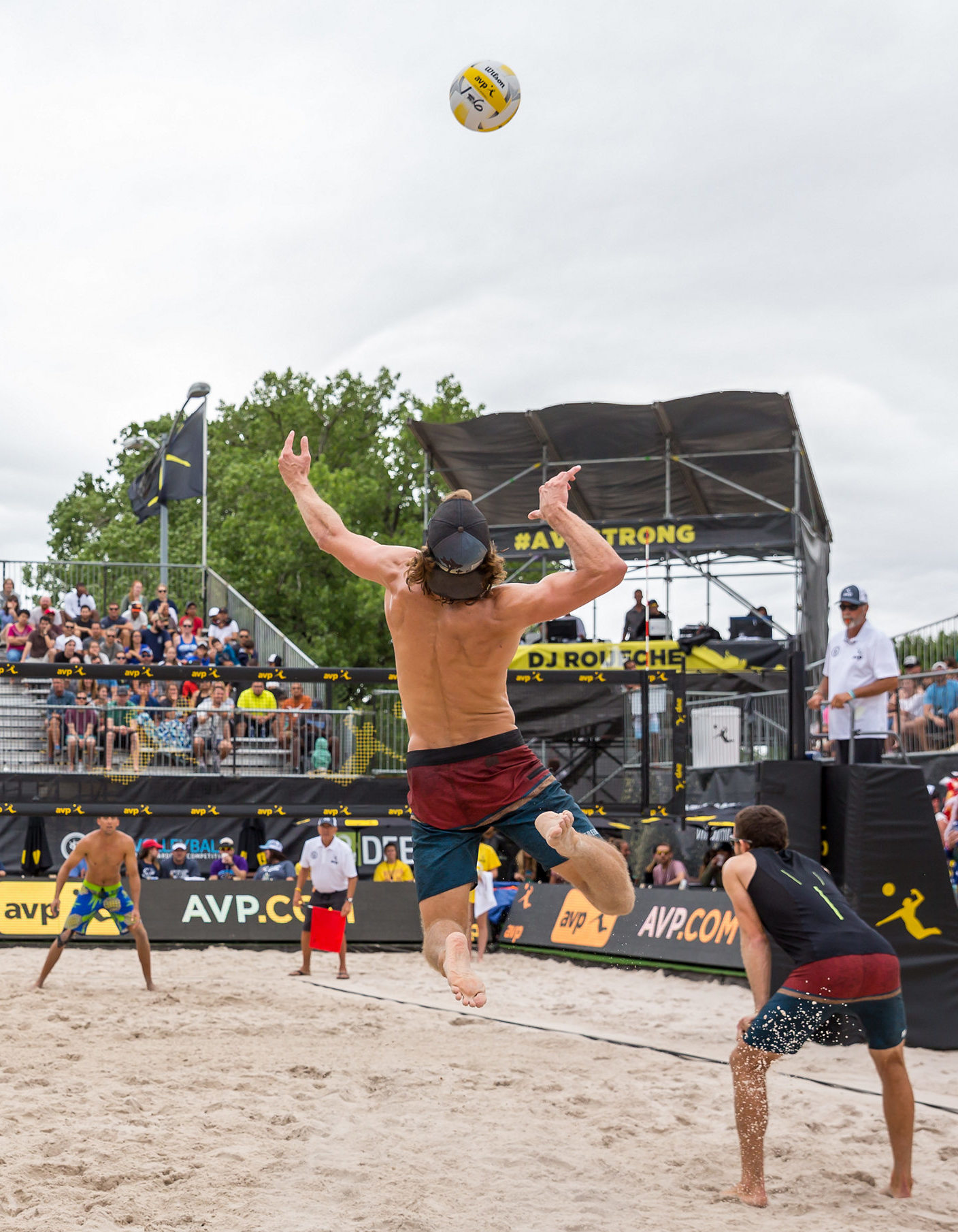 AVP Austin Open professional beach volleyball tournament in Austin, Texas on May 21, 2017.